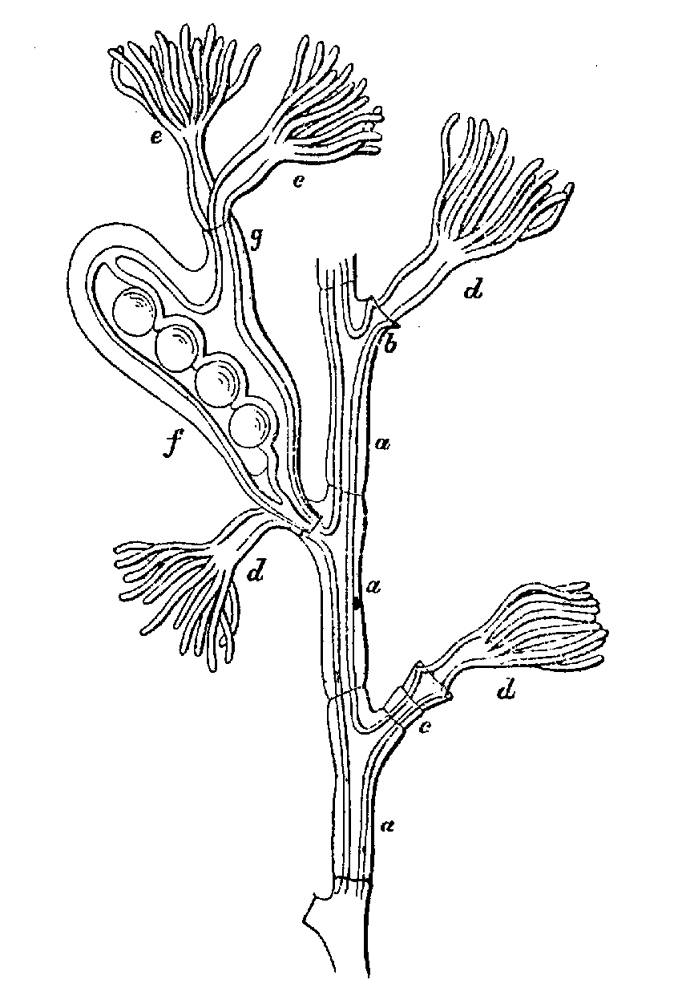 Portions of female colony of Halecium beanii, with hydranths and gonangium. a. Internodes of the stem. b. Simple lateral processes of an internode, supporting a hydranth. c. The same prolonged by two accessory tubes. d. Cauline or ordinary hydranths. e. Gonangial hydranths. f. Gonangium. g. Tubular orifice of gonangium.